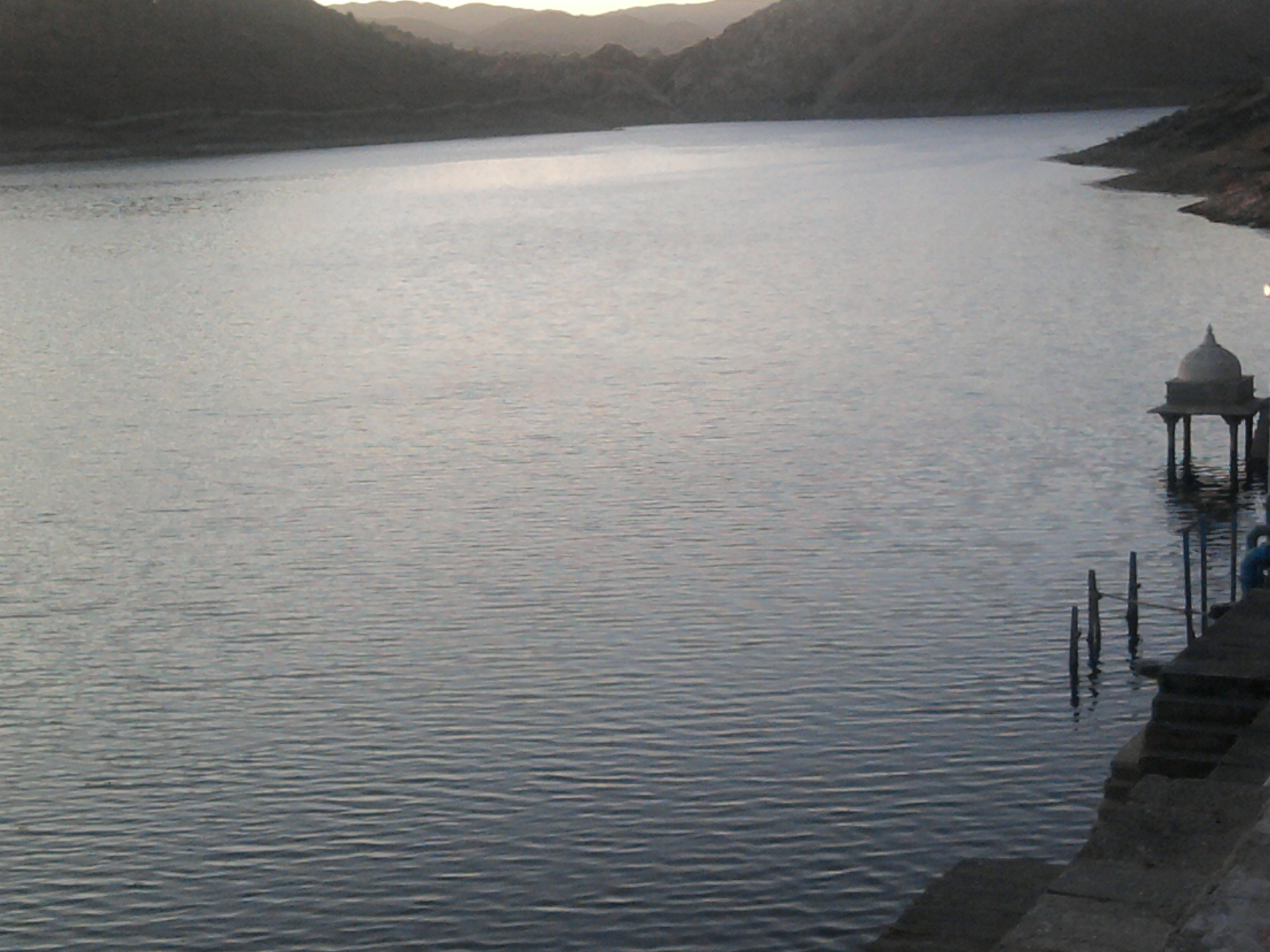 View of Lake Badi,Udaipur,Rajasthan,India